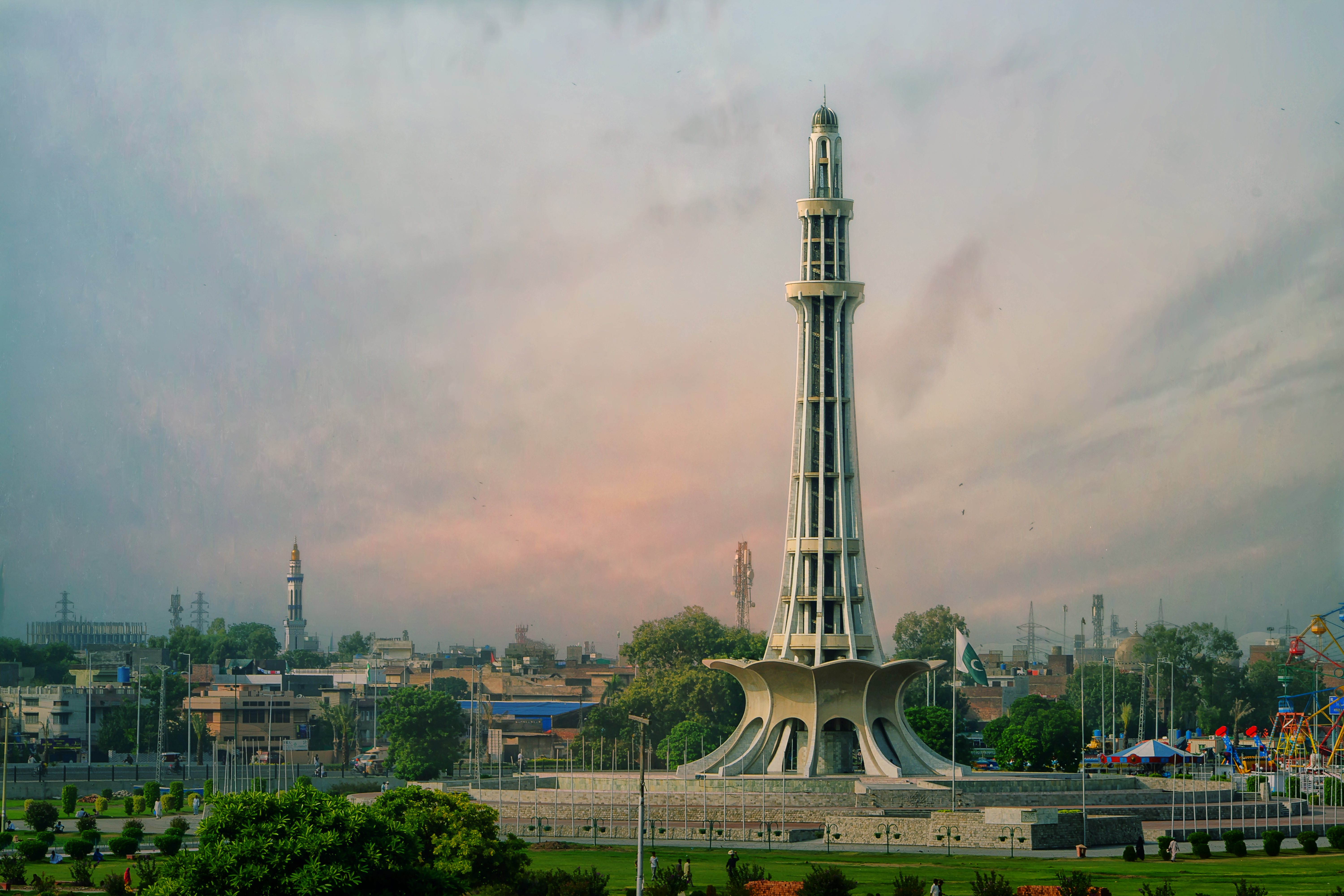 Minar-e-Pakistan This is a photo of a monument in Pakistan identified as the PB-73